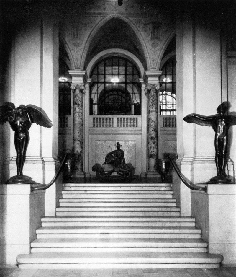 Entry of the Grand Central Art Galleries exhibition space on Fifth Avenue and 51st Street in New York City, circa 1934.